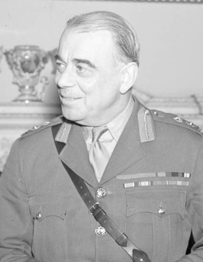 General Sir Hastings Ismay, 1st Baron of Wormington (1887 -1965): Ismay at a farewell dinner for Admiral Stark at the Royal Naval College, Greenwich.